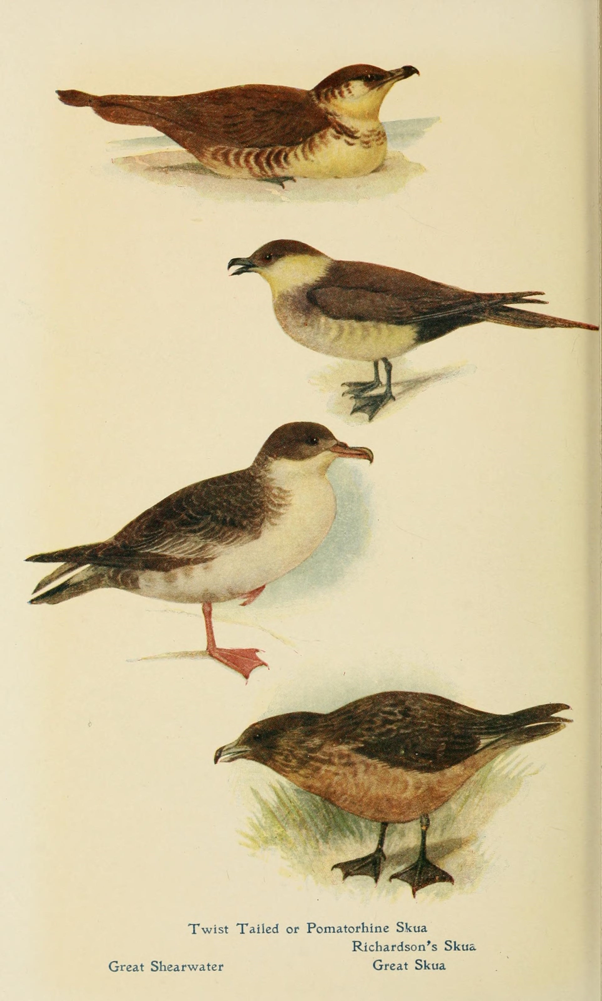 W" Twist Tailed or Pomatorhine Skua Richardson's Skua Great Shearwater Great Skua